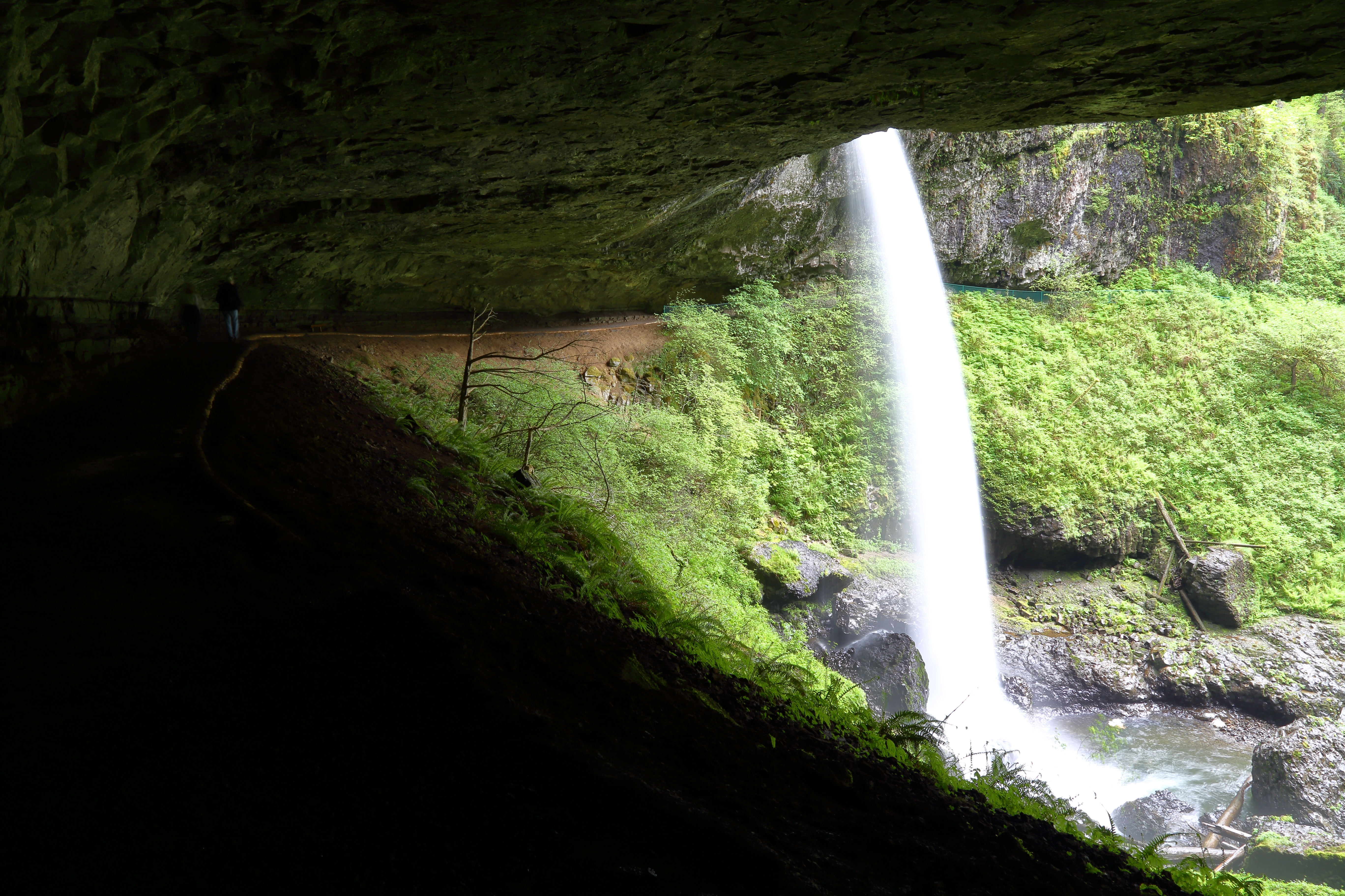 Silver Falls State Park (Oregon) - Cavern behind North Falls